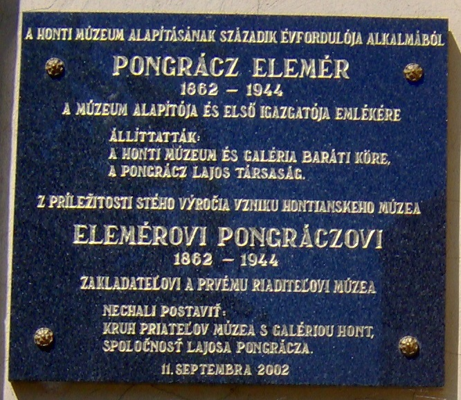 Šahy